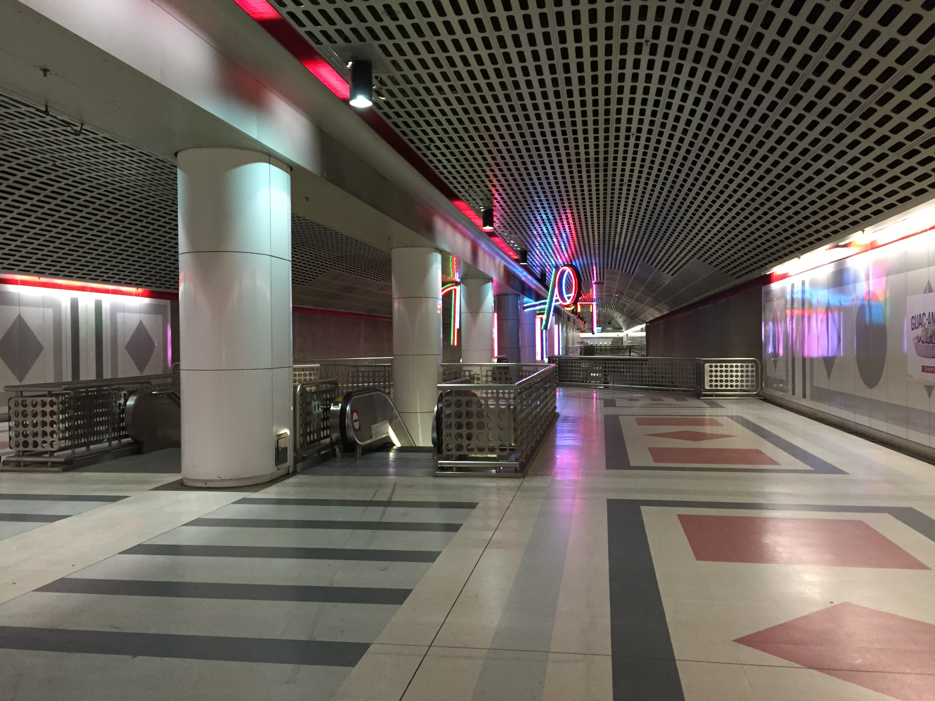 Mezzanine of the Pershing Square LACMTA station in Downtown Los Angeles, California in 2016.